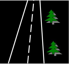 Effect of perspective.